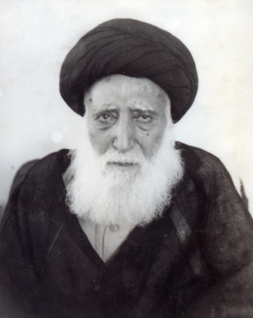 Jamal al-Din Golpayegani (10284)